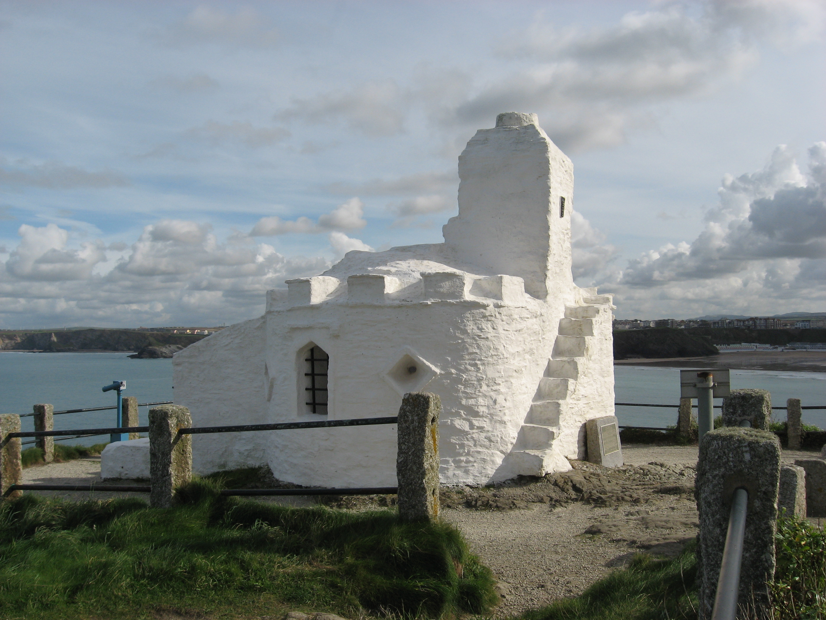 Huers Hut, Newquay.